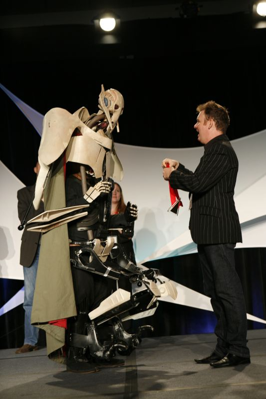 "General Grievous" receives an award from Dave Elsey. Photo by Jenny Elwick. Read more at the Official Celebration IV blog. Costumes at Star Wars Celebration IV in 2007 at the Los Angeles Convention Center in Los Angeles.